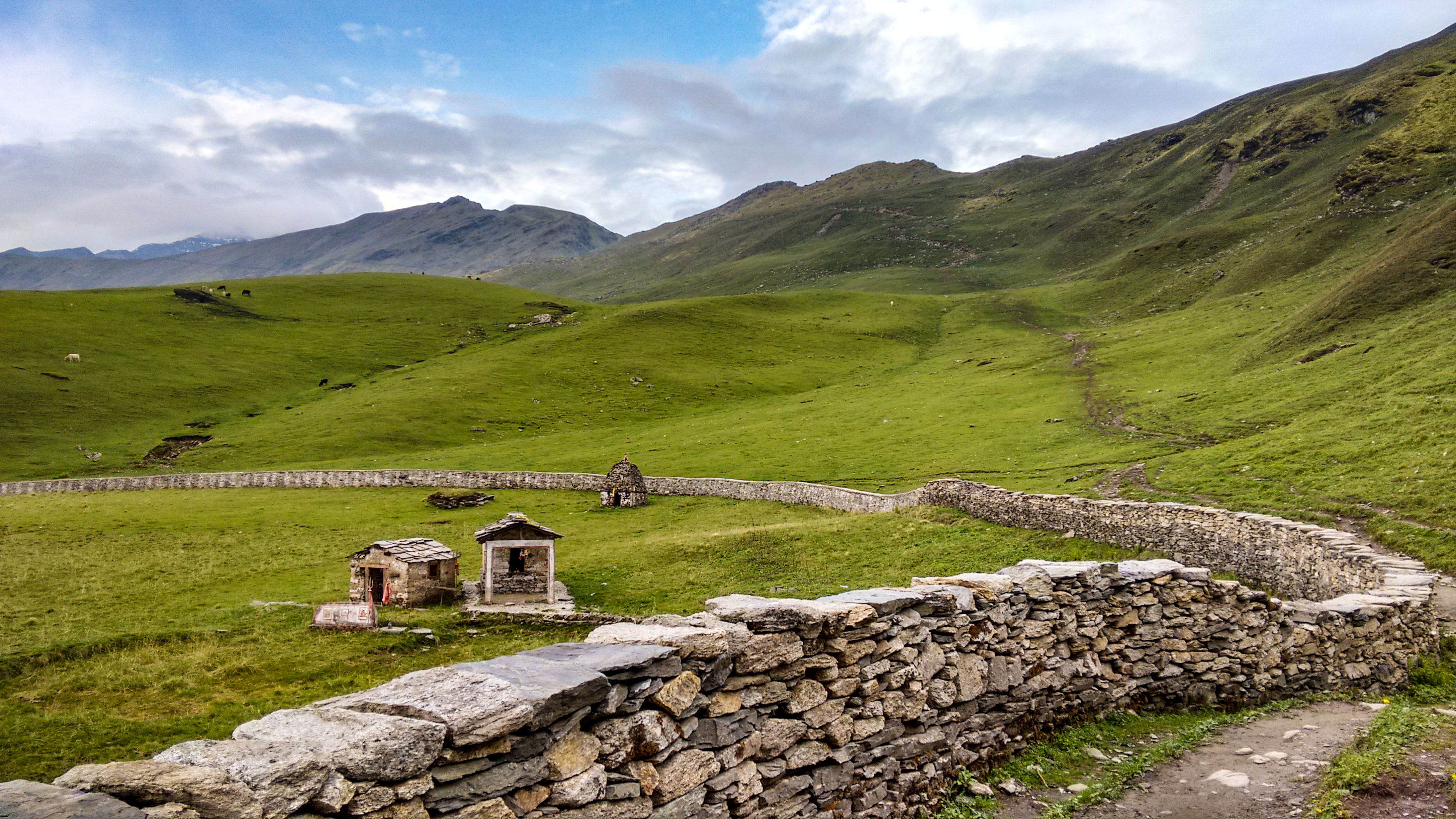 There is a small lake named Vaitarani (Bedini Kund), situated amidst the meadow. The rich flora of the area includes 'Brahm Kamal' . it lies under NANDA DEVI NATIONAL PARK.